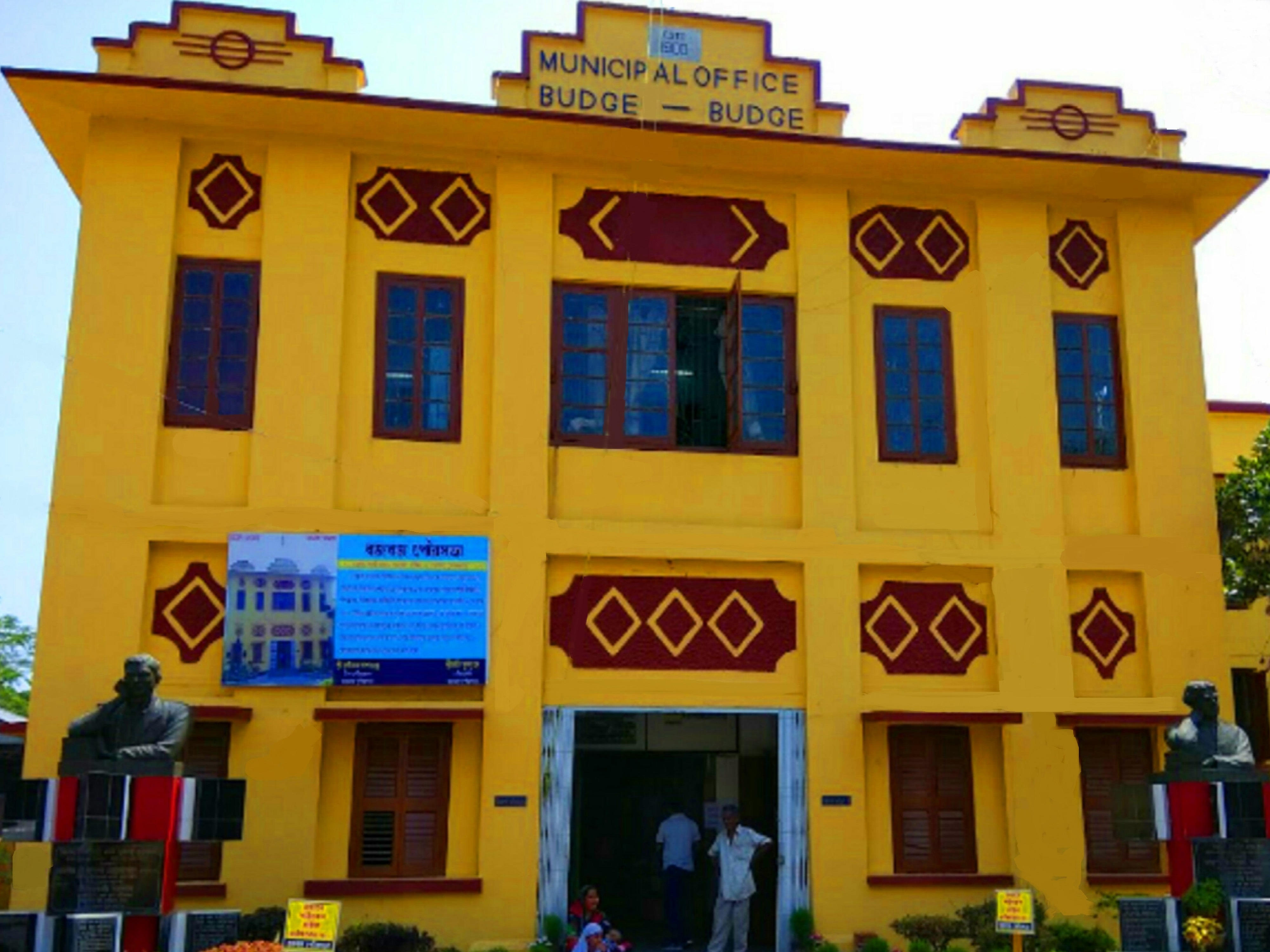 Building of the Budge Budge Municipal Corporation